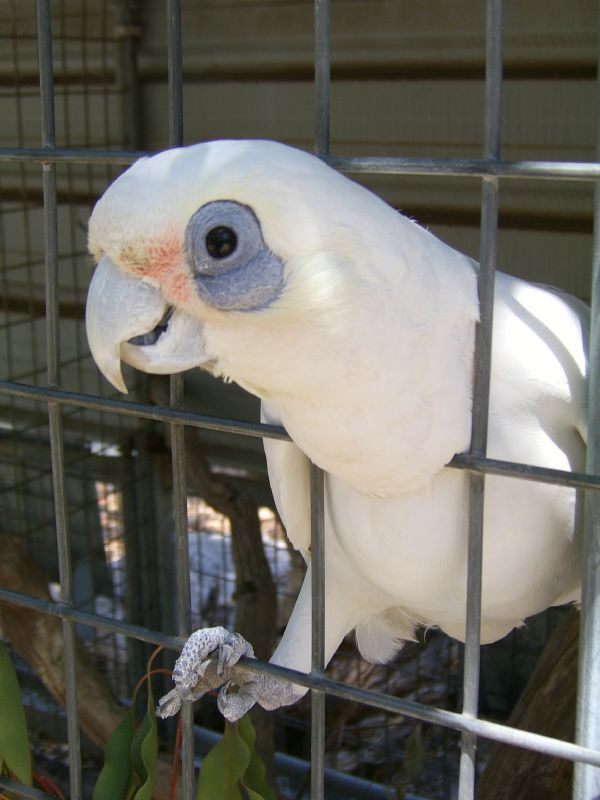 Little Corella in an aviary. The bars are widely spaced and the parrot has put its head between the bars.